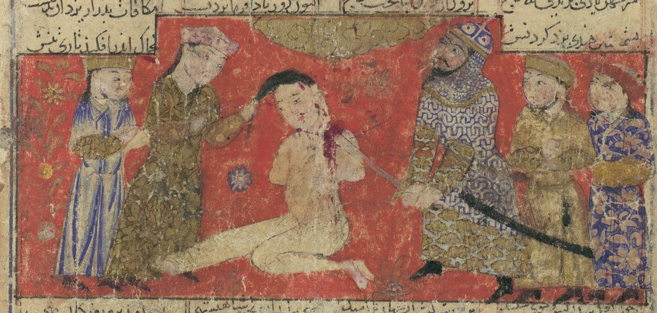 Caicosroes mata seu avô Afrasíabe em vingança pela morte de seu pai.